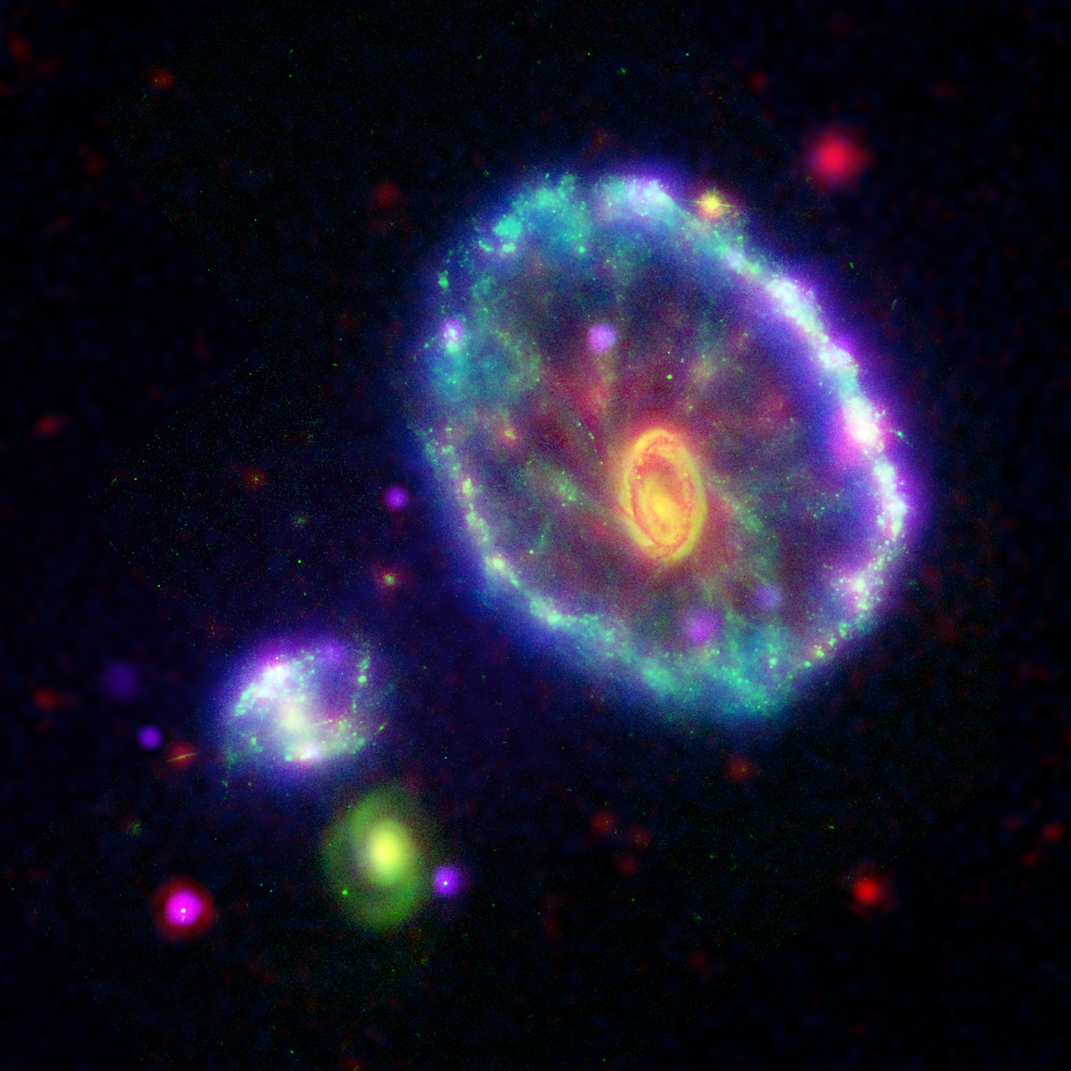 Cartwheel Galaxy Makes Waves